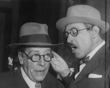 Miguel Gómez Bao y Marino Seré-actores argentinos